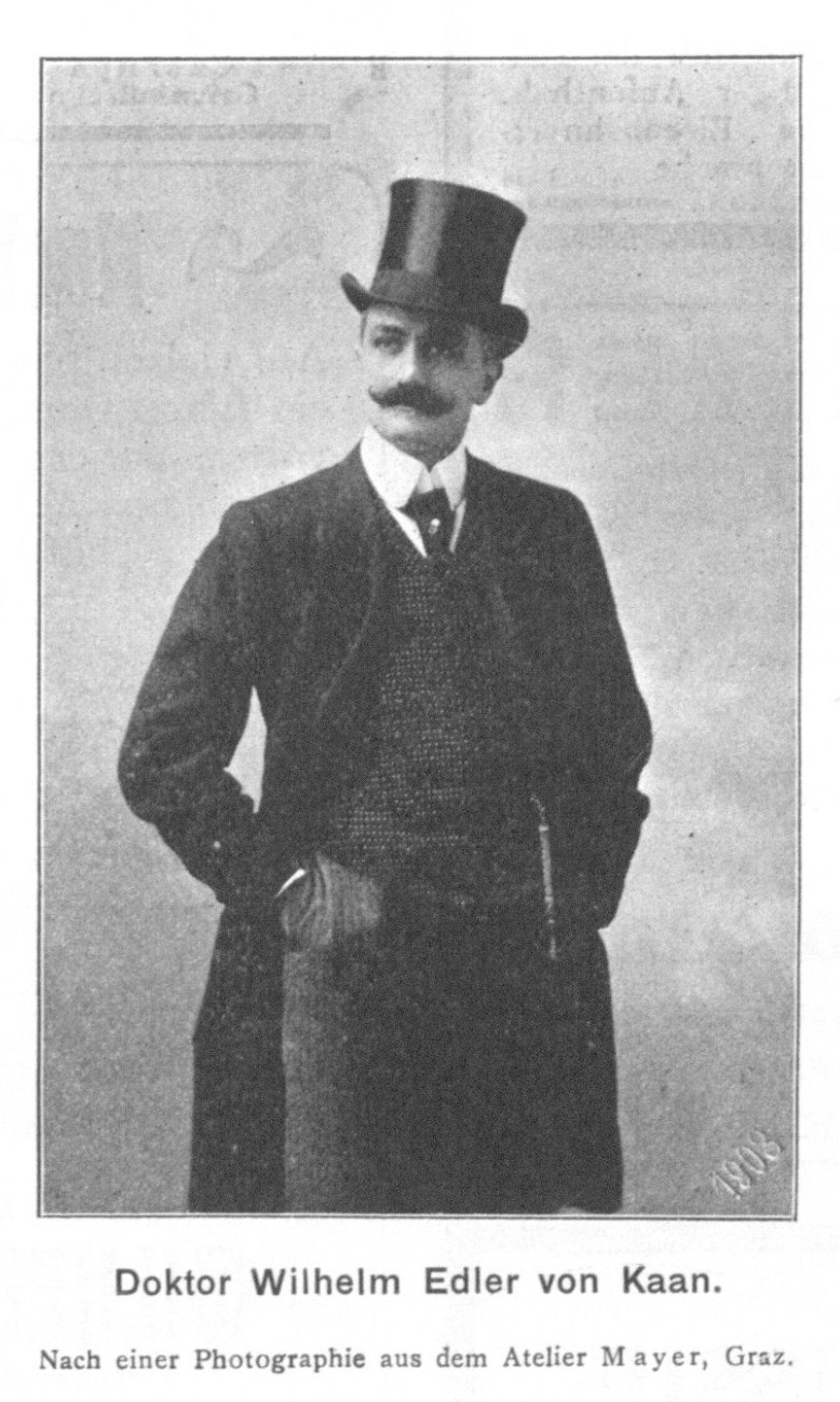 Wilhelm Kaan (1865-1945), Austrian lawyer and politician. His portrait was included due to his sports activities: He joined a horse-riding club in Graz in 1888 and later became its chairman. As of 1903, he was also a chairman of automobile club of Graz.